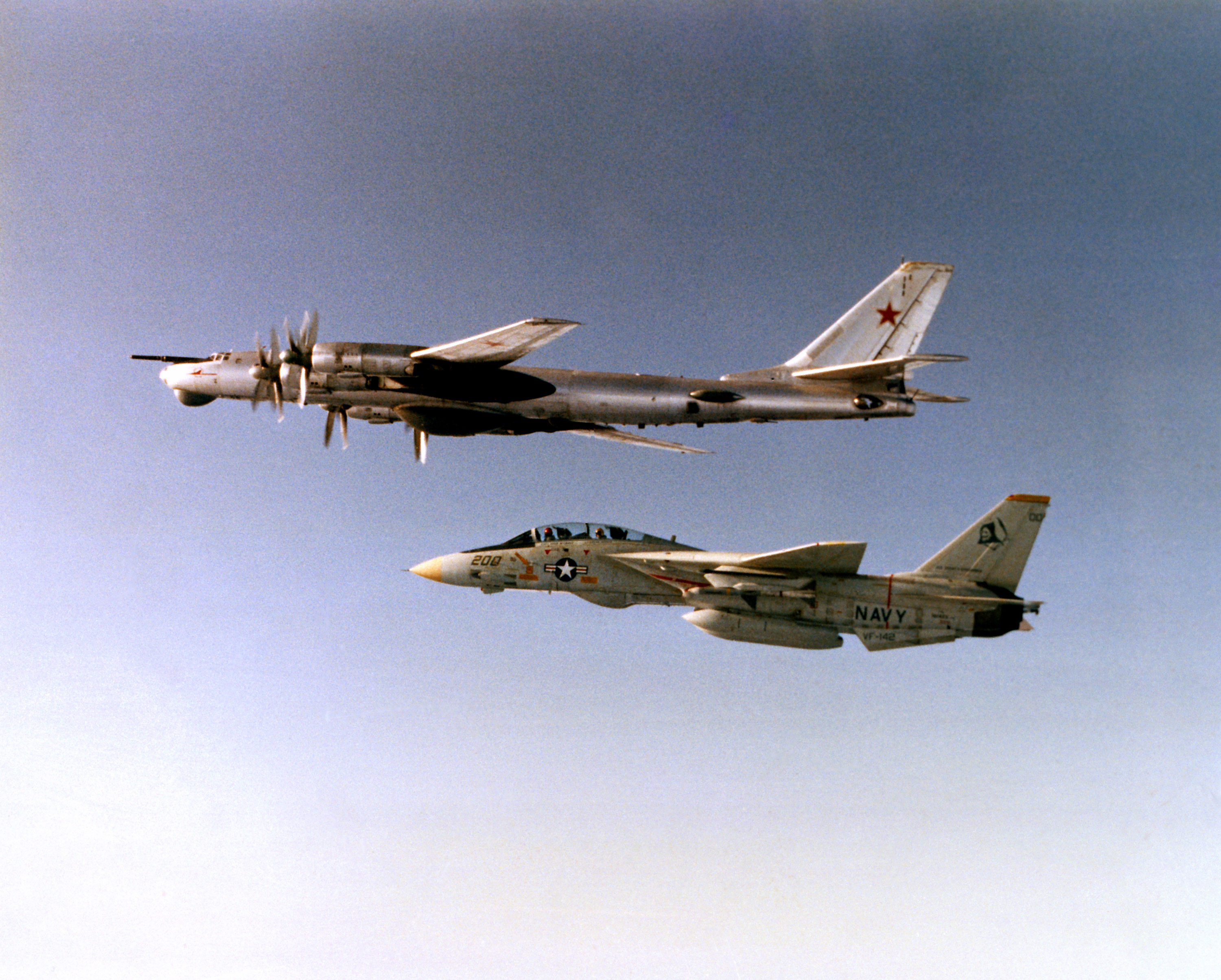 A left side air-to-air view of a Soviet Tu-95 Bear maritime reconnaissance aircraft, top, being Escorted by a U.S. Navy F-14 TOMCAT aircraft as the Soviet aircraft approaches the Readex 1-83 battle group. LCDR Greg Quist pilots the Fighter Squadron 142 (VF-142) TOMCAT, assigned to the nuclear-powered aircraft USS DWIGHT D. EISENHOWER (CVN-69). LT J.G. Randy Dewar is the radar intercept officer.